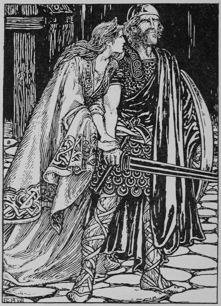 The Maiden Ferb——Incited him to the fight